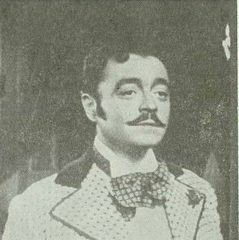 Romanian actor Ion Lucian